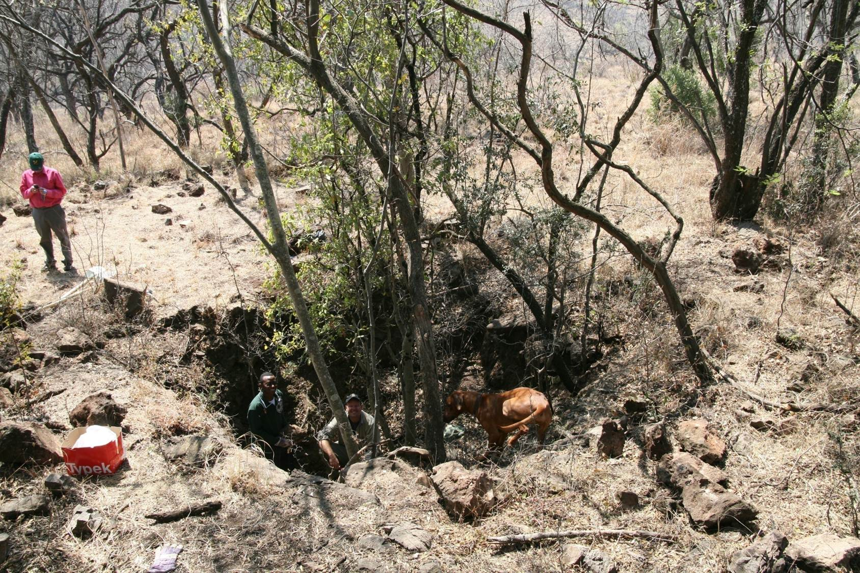 The Malapa site, South Africa. September 4, 2008. At the moment of discovery of the female skeleton MH2. Photo courtesy Lee R. Berger